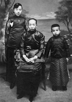 Bing Xin ,was one of the most prolific and esteemed Chinese writers of the 20th Century. Many of her works were written for young readers. She was the chairperson of the China Federation of Literary and Art Circles.